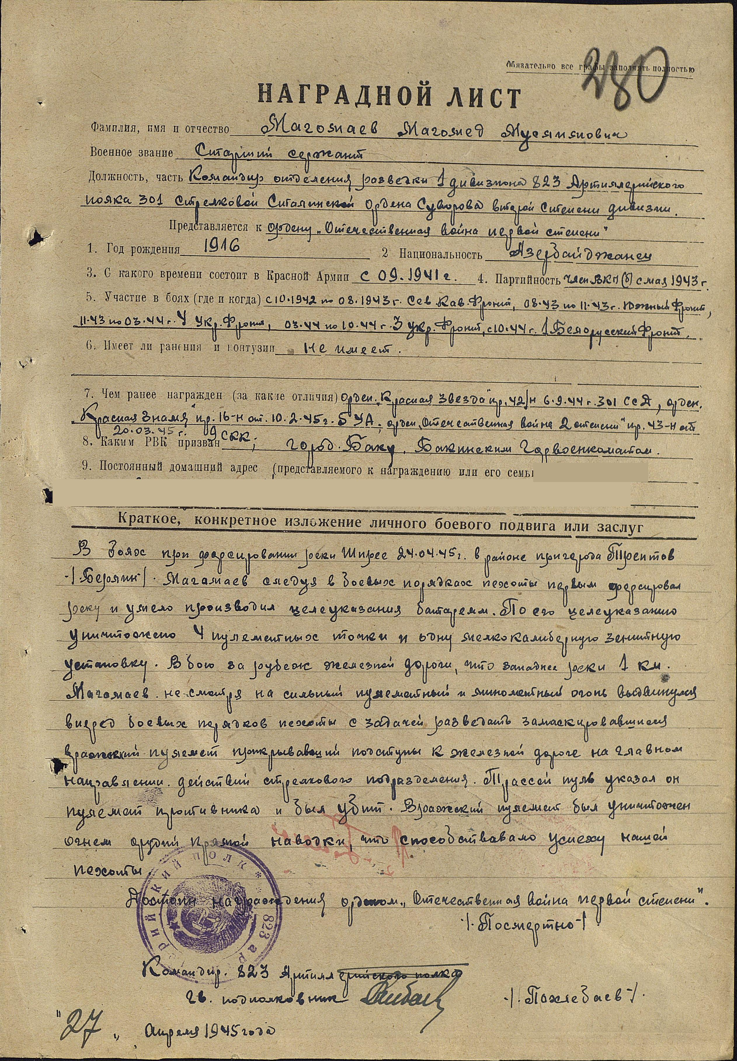 Наградной лист Магомаева